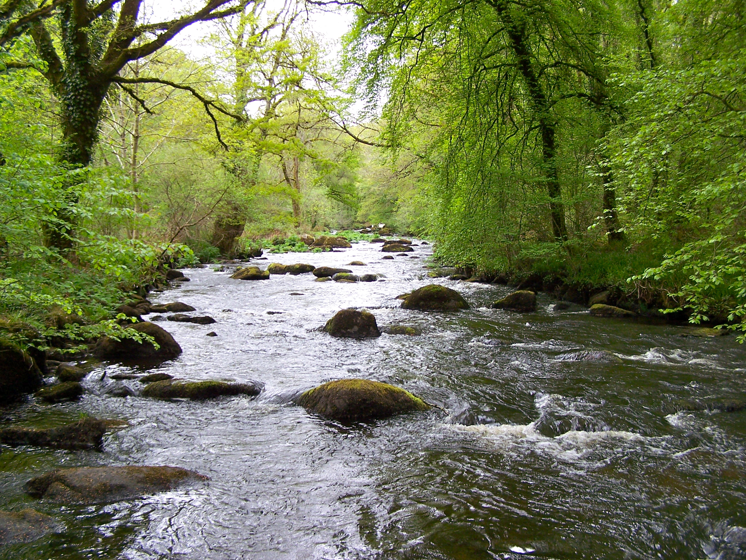 View of the Ellé river at Le Faouët, Morbihan